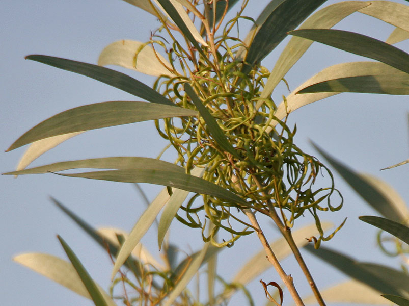 Acacia mangium? in Hyderabad, India.